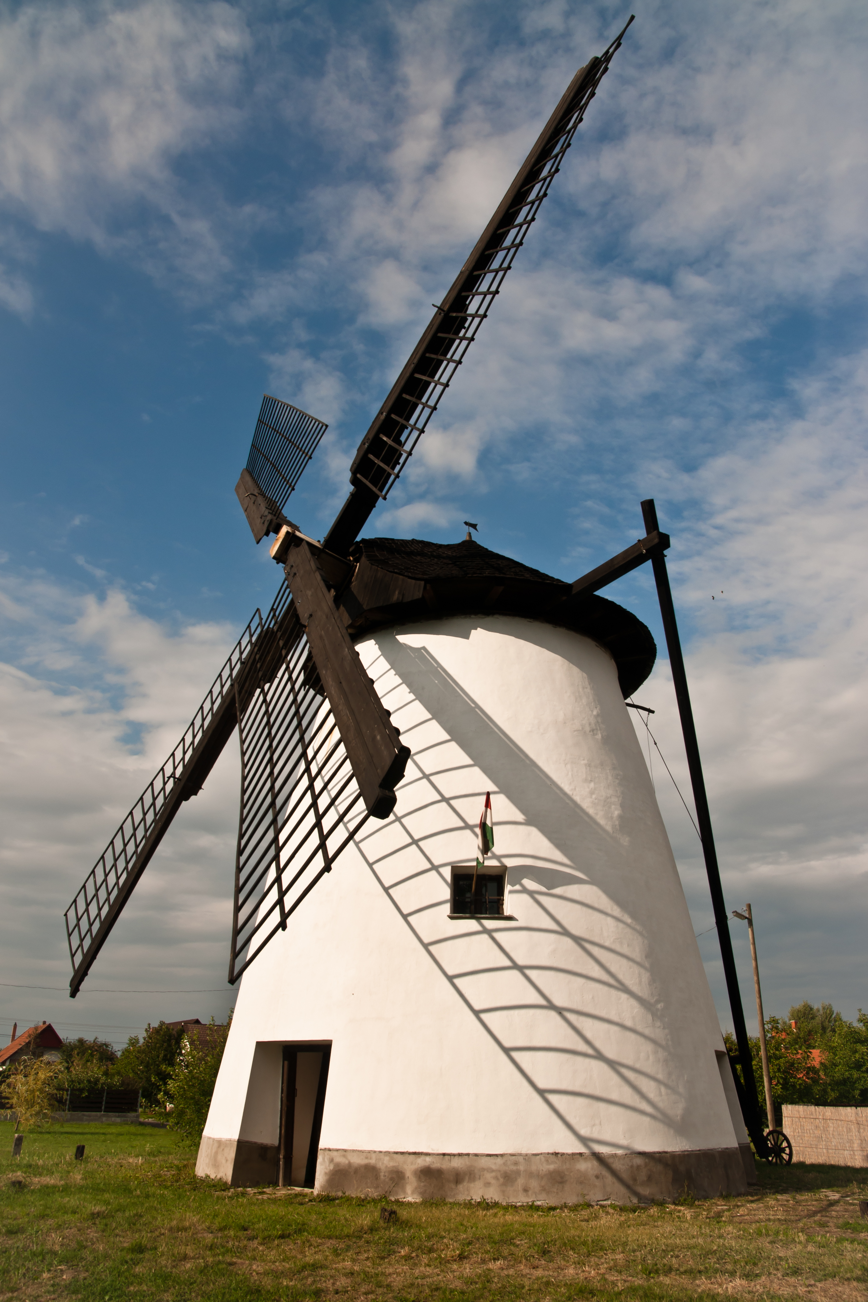 Windmill, 19th century, in Szeged, Kiskundorozsma District, Szélmalom street